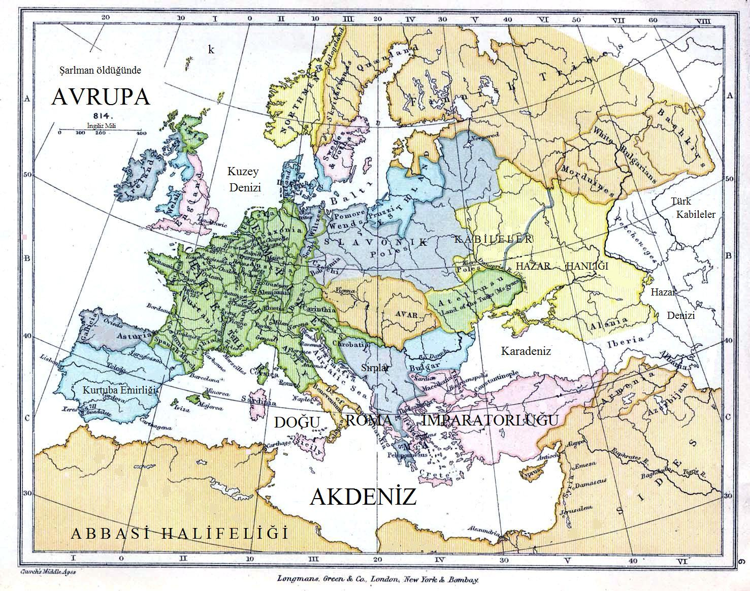 Europe in 814.